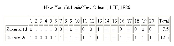 World Chess Championship 1886 Steinitz - Zukertort Title Match